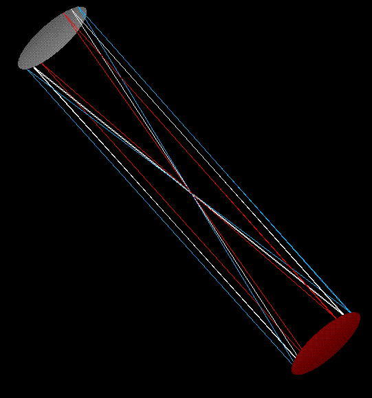 Two parabolic mirrors with rays traced between them. The focal points of the mirrors are located at the same point.